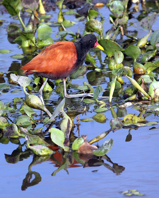 Wattled Jacana Jacana jacana Ibera Marshes, Argentina 2nd. April 2006